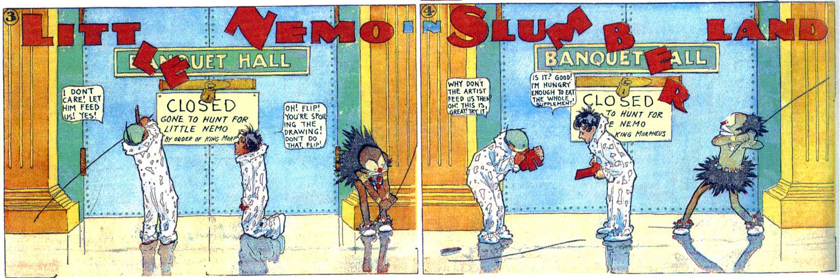 Little Nemo 1907-12-01 panels 3 and 4